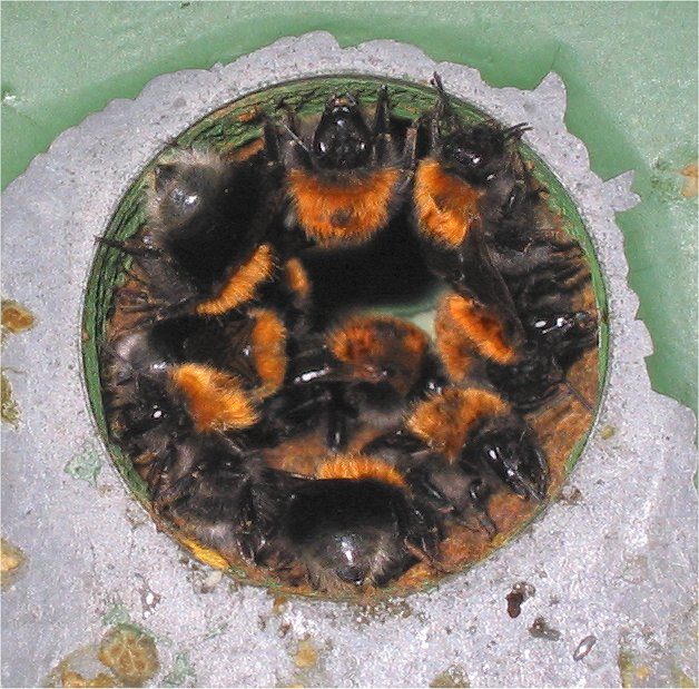 Tree bumblebees (Bombus hypnorum) ventilating at the entrance of their nest in a bird box because of too high temperatures inside the box.